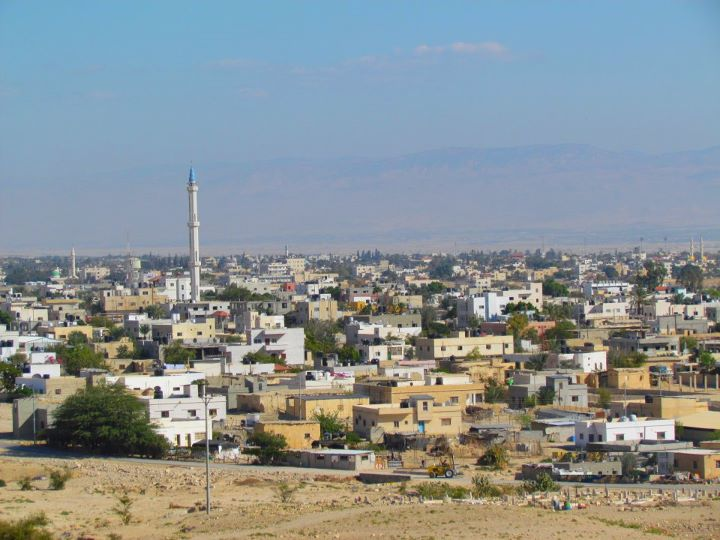 Picture of the outskirts of Jericho